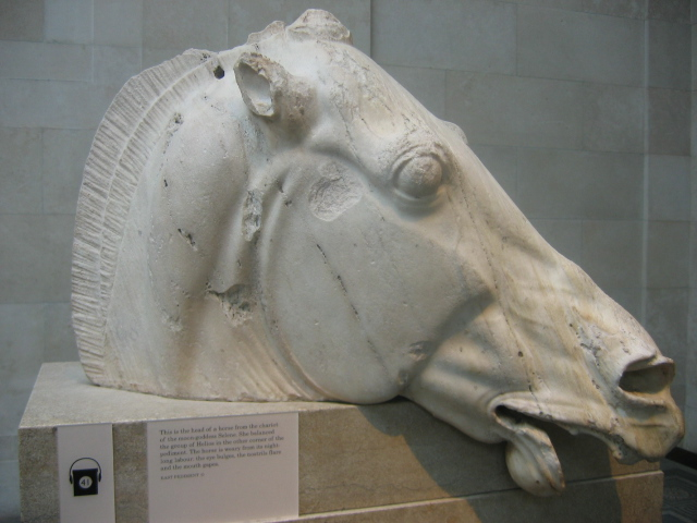 Elgin Marbles, British Museum, London : Fronton est